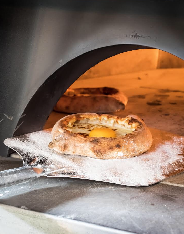 This is an adjarian khachaphuri in an oven.